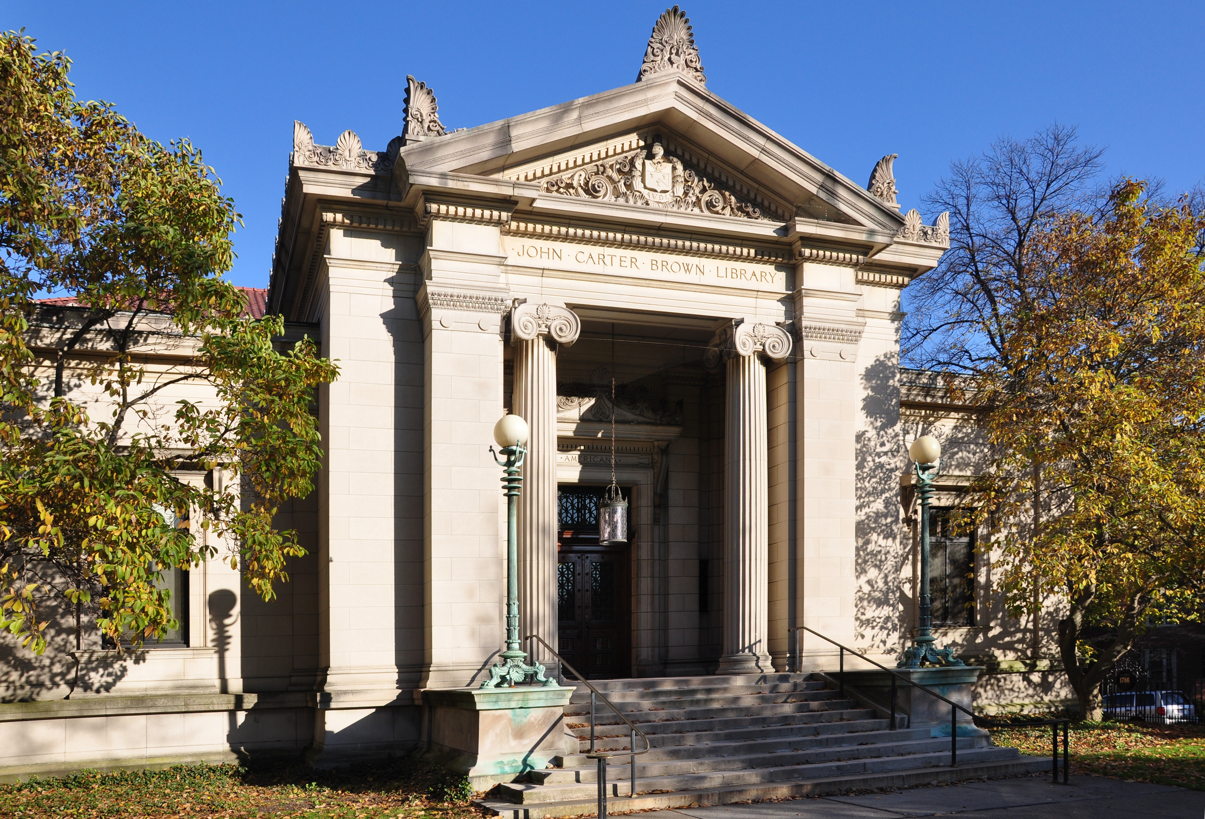 Brown University John Carter Brown Library 2009 Rhode Island Providence